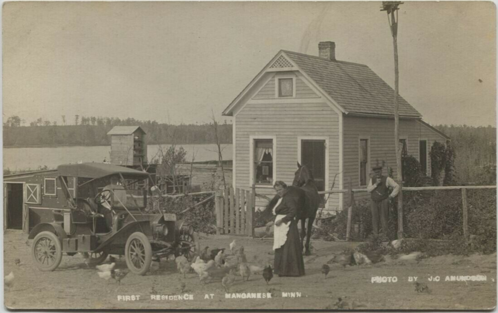 1917 photo postcard labeled "First Residence at Manganese Minn, Photo by JC Amundson" shows house, car, lake in background, and a few people